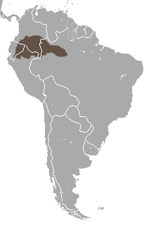 Spix's Night Monkey (Aotus vociferans) range